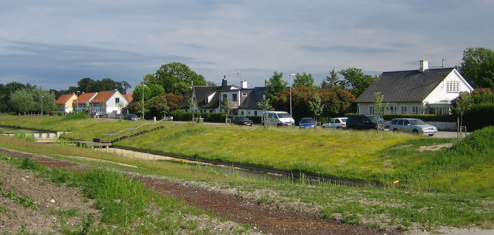 Vintrie village in Malmö, Sweden.